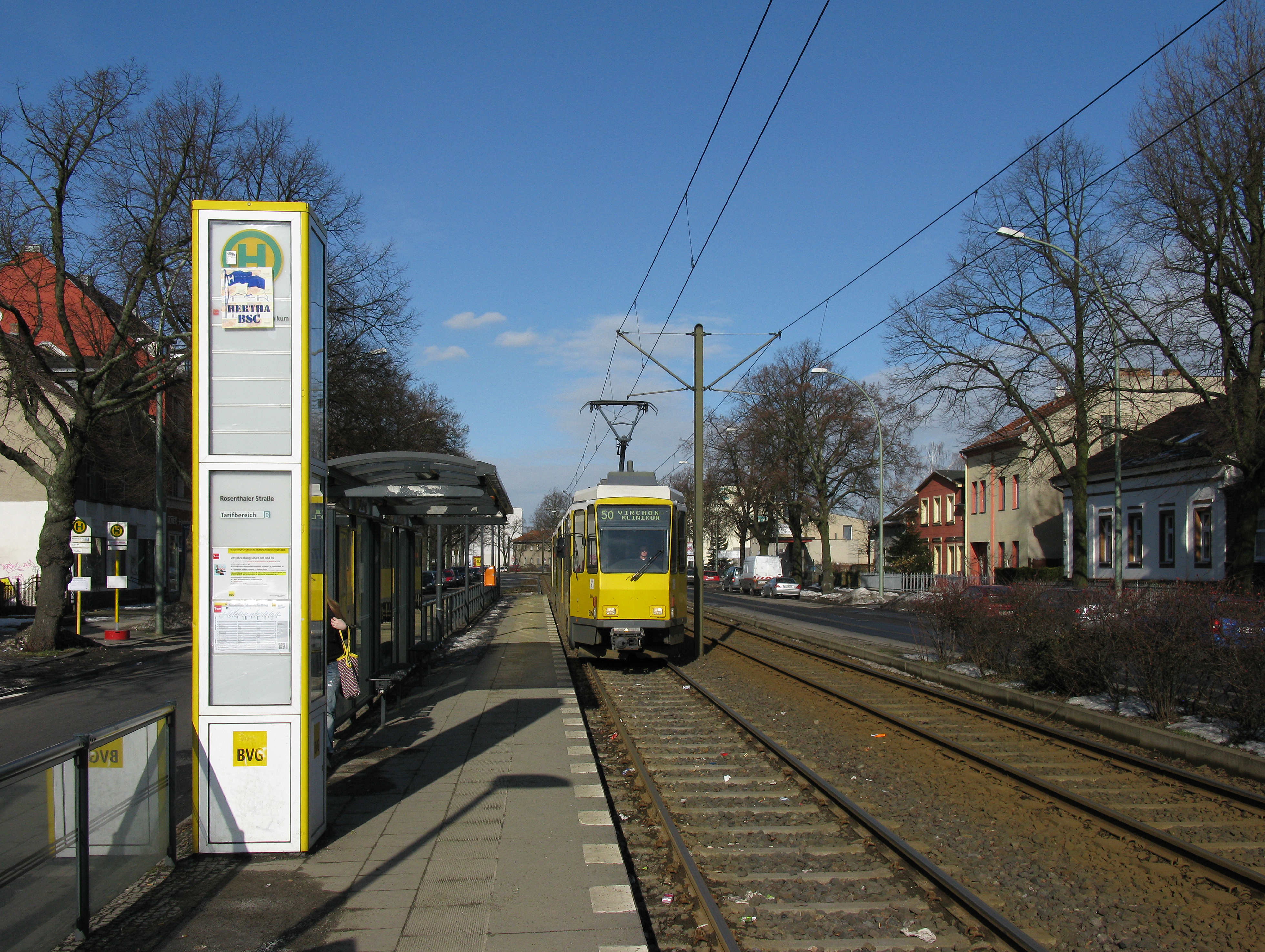 BVG tram stop "Rosenthaler Str.", Berlin-Französisch Buchholz. Tram 50 from Guyotstr. to Virchow Hospital is approaching the stop. The train is a Tatra KT4D.